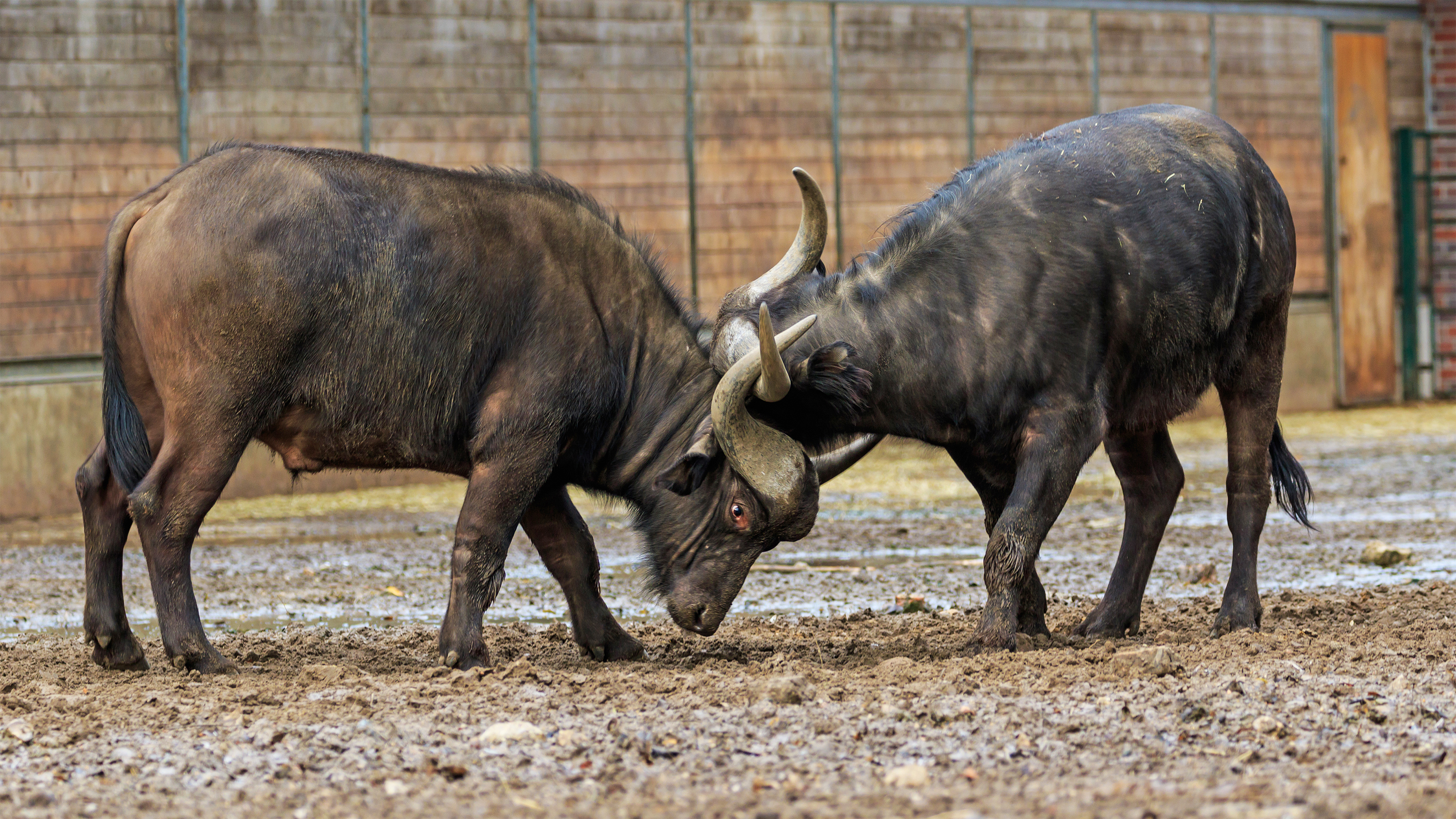 Two African buffaloes in the Berlin Tierpark (Friedrichsfelde zoo)